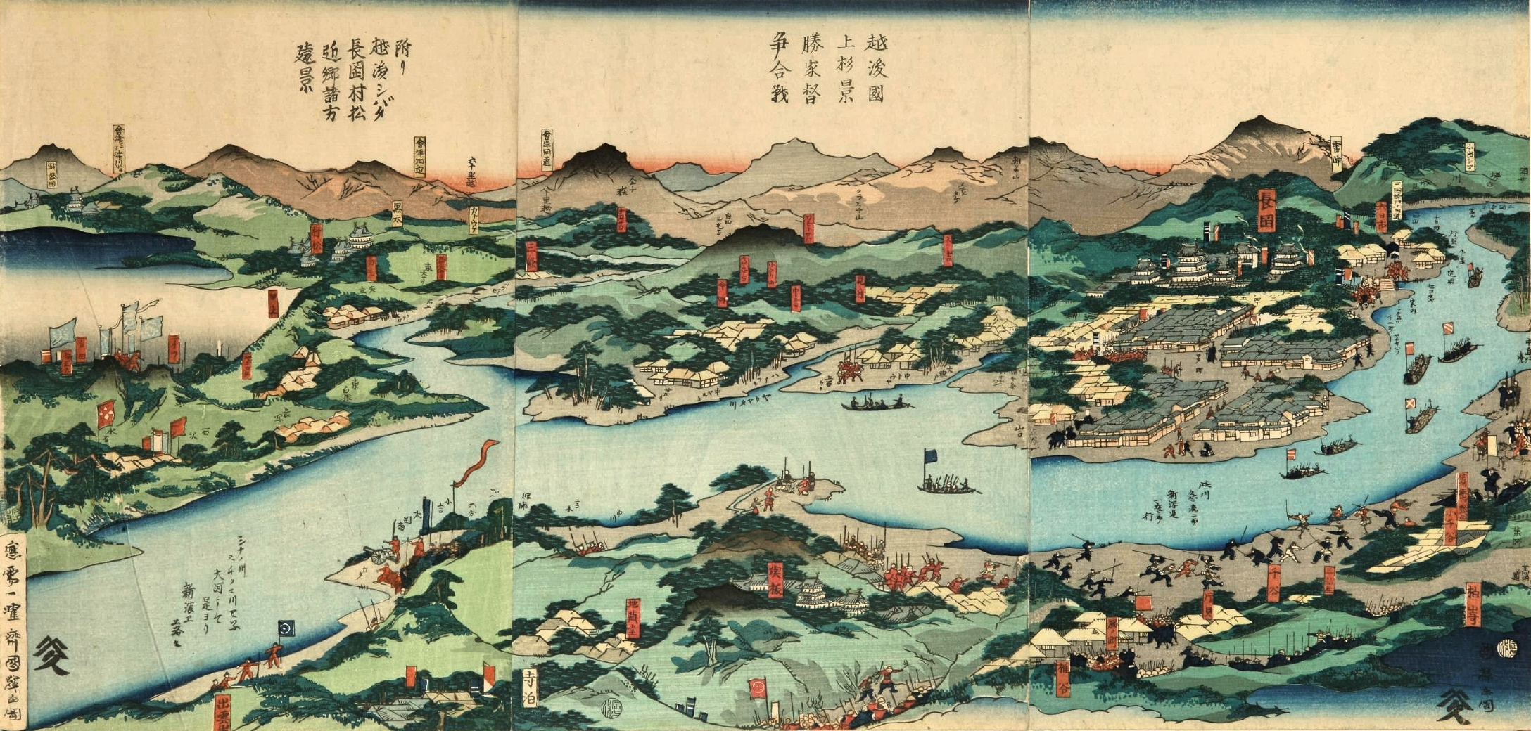 Ukiyoe "Echigo no kuni Uesugi Kagekatsu katoku arasoi kassen". Collection of Niigata Prefectural Library. The ukiyoe which drew the Boshin War (Battle of Hokuetsu). The title is "Echigo no kuni Uesugi Kagekatsu katoku arasoi kassen", but actual condition is a picture about the Battle of Hokuetsu.